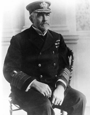 Photo of Admiral Sir Charles Frederick Hotham